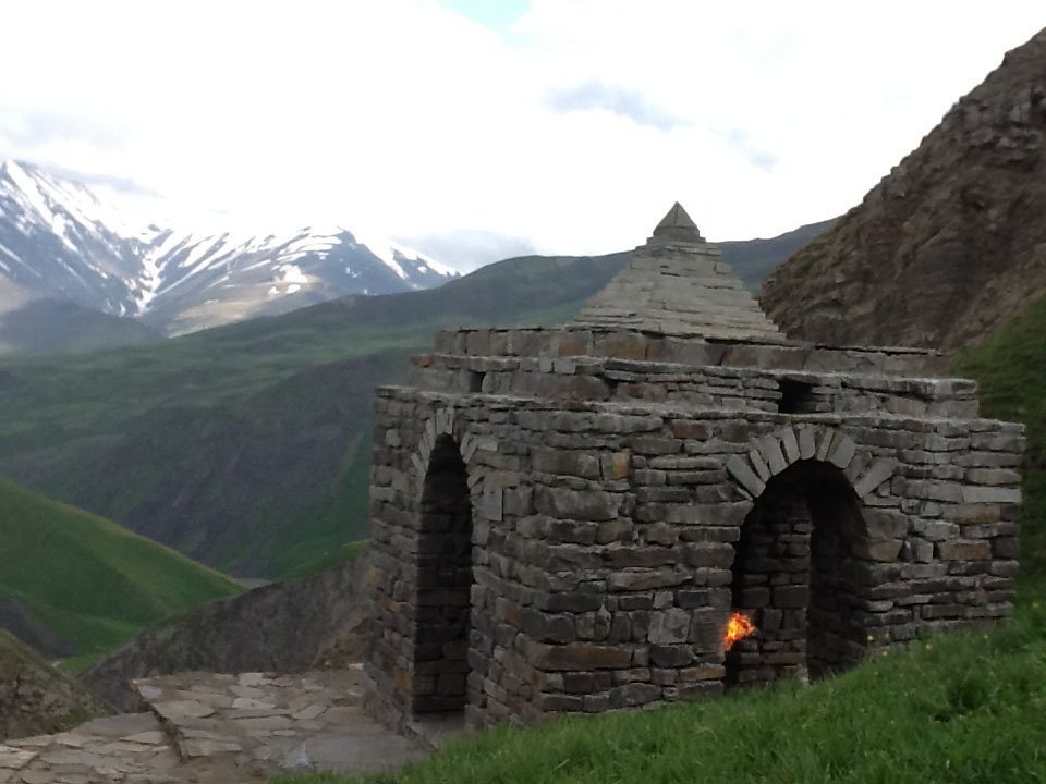 Restored Zoroastrian firetemple near Khinalig village, Azerbaijan